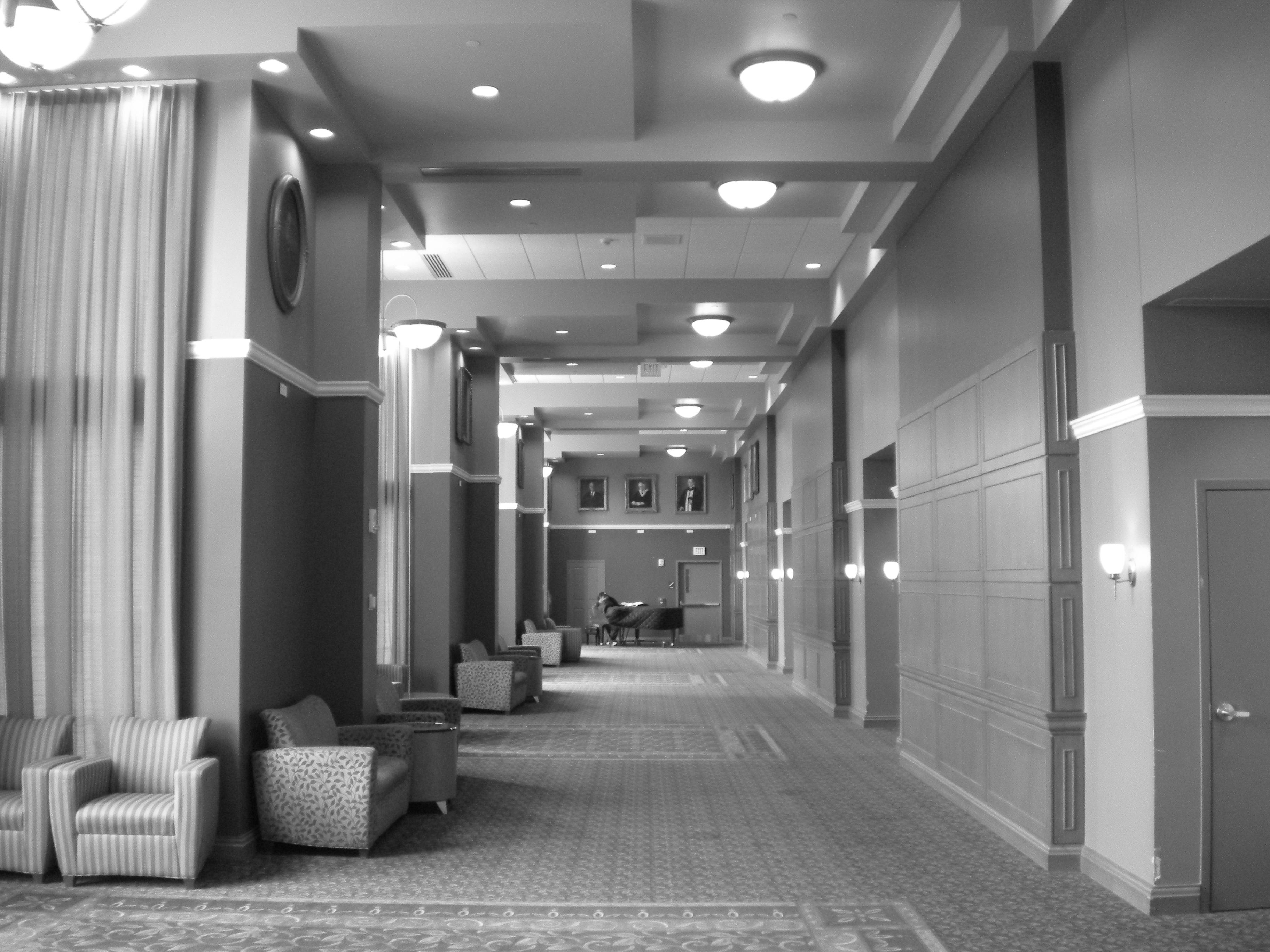 The Grand Hallway, or Presidents Hallway, at the Ohio University Baker Center